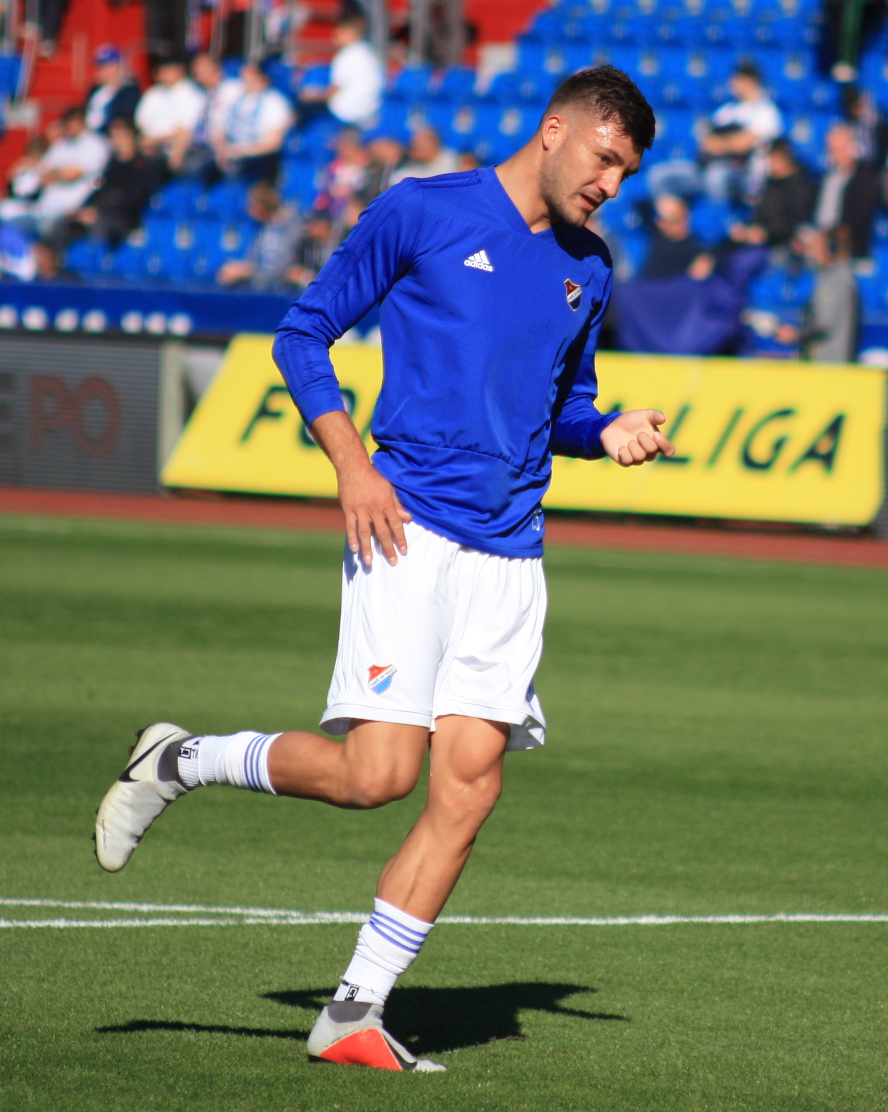 Patrizio Stronati At Czech First League (Fortuna Liga) match FC Baník Ostrava-SK Slavia Praha played on 30. 9. 2018